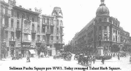 Statue of Soliman Pasha in downtown Cairo's main square. now Talaat Harb Square & Statue .